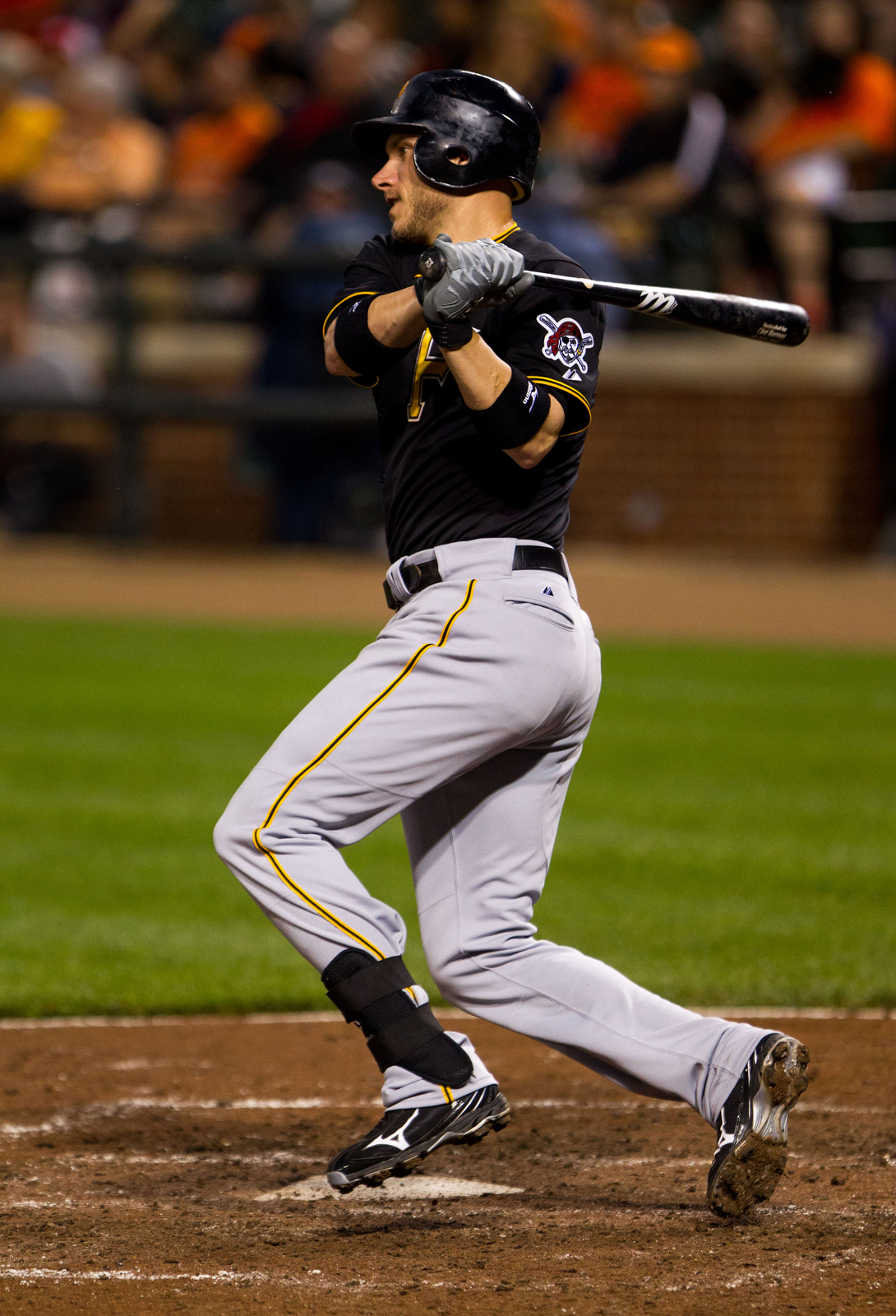 Clint Barmes